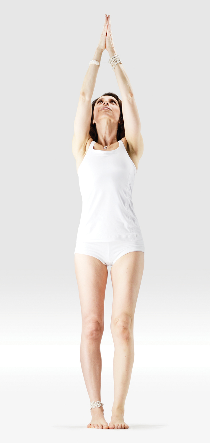 Mr-yoga-upward salute 2